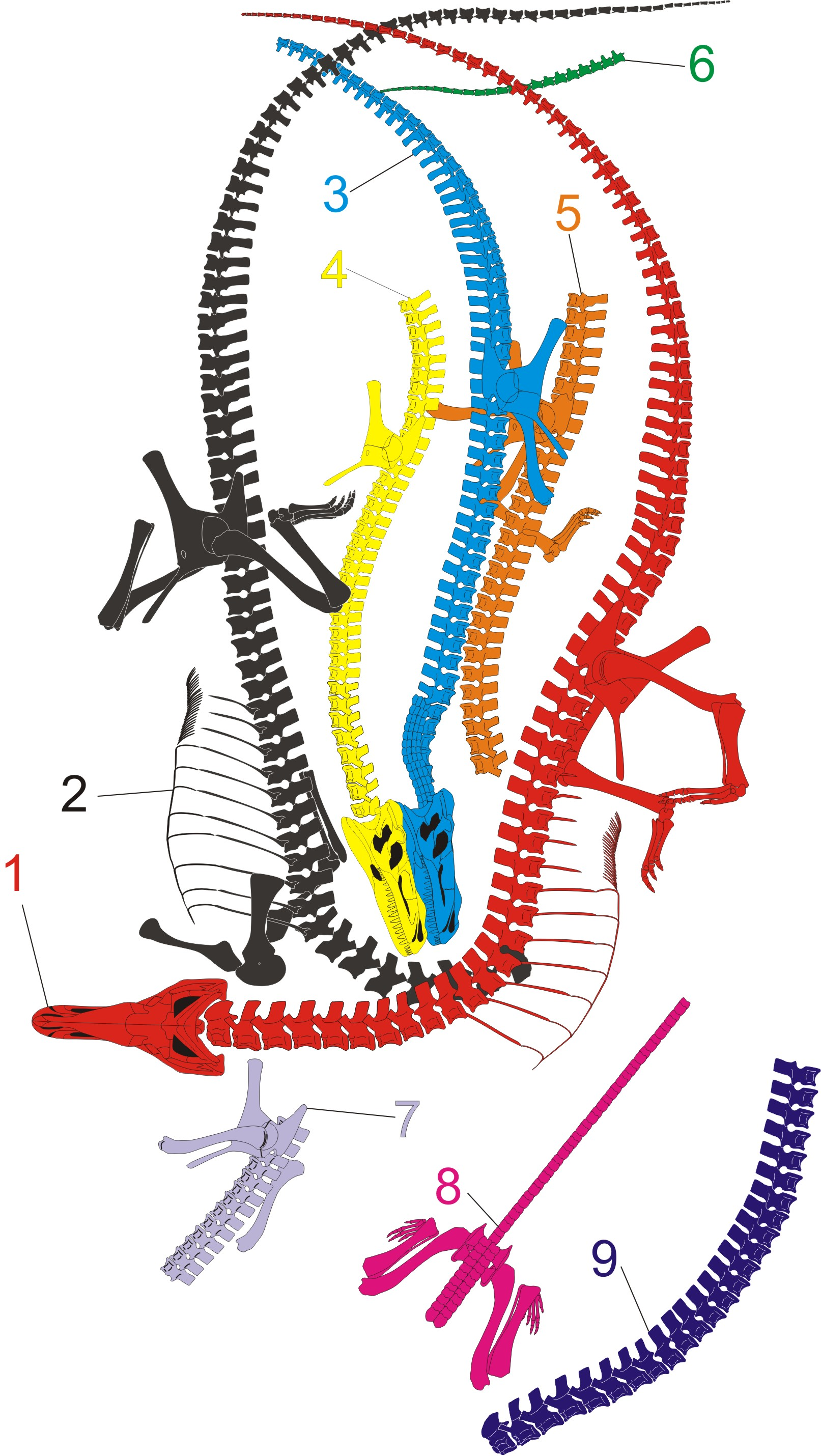 nive especimens of Decuriasuchus